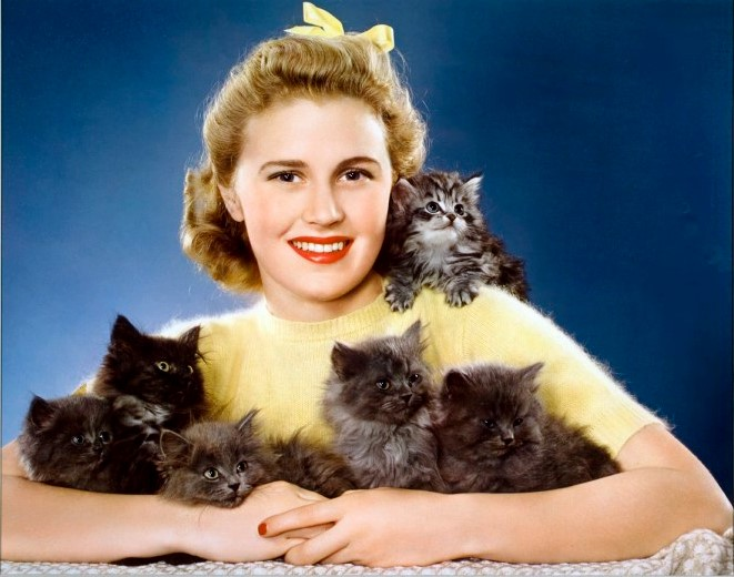 Dodge aimed for the luxury market in this advertisement for the 1933 models. Accession Number: 1971:0034:0012. Color print, assembly (Carbro) process".